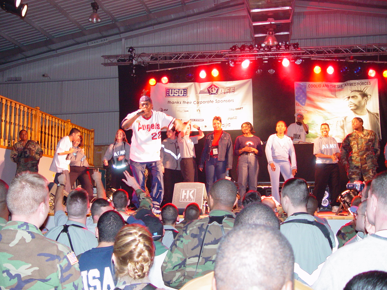 Coolio performing for US military Task Force Eagle.